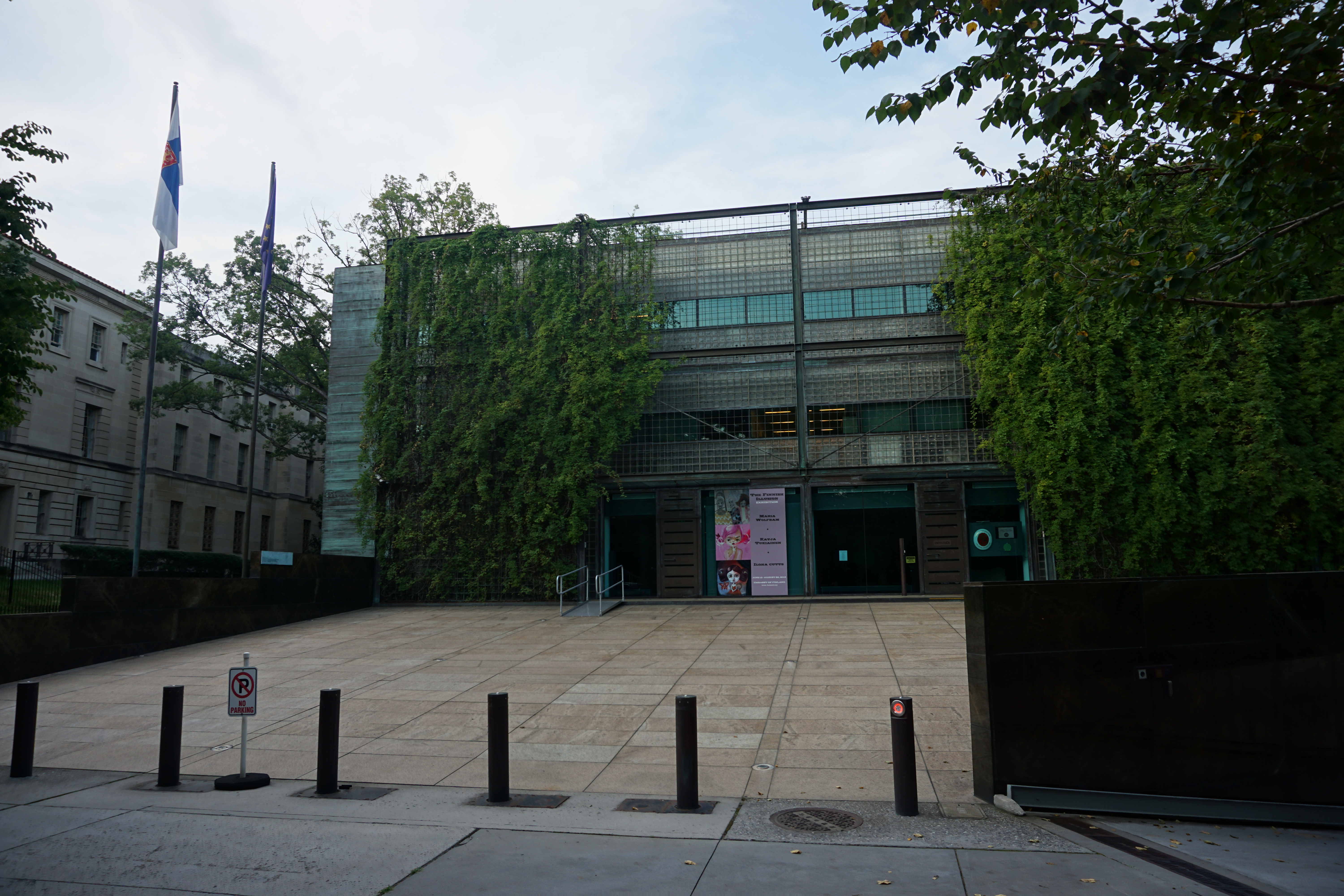 The Embassy of Finland in Washington, D.C. (United States).